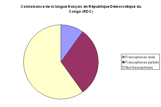 Knowledge of French language in the DRC in 2005 according to the OIF.